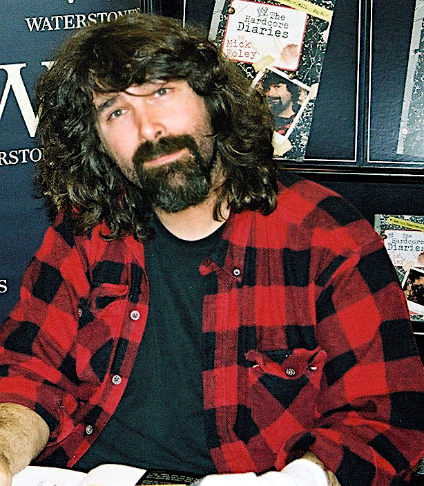 Photo cropped from a signing at Waterstones, Cardif UK. Photo taken by Mark Smith